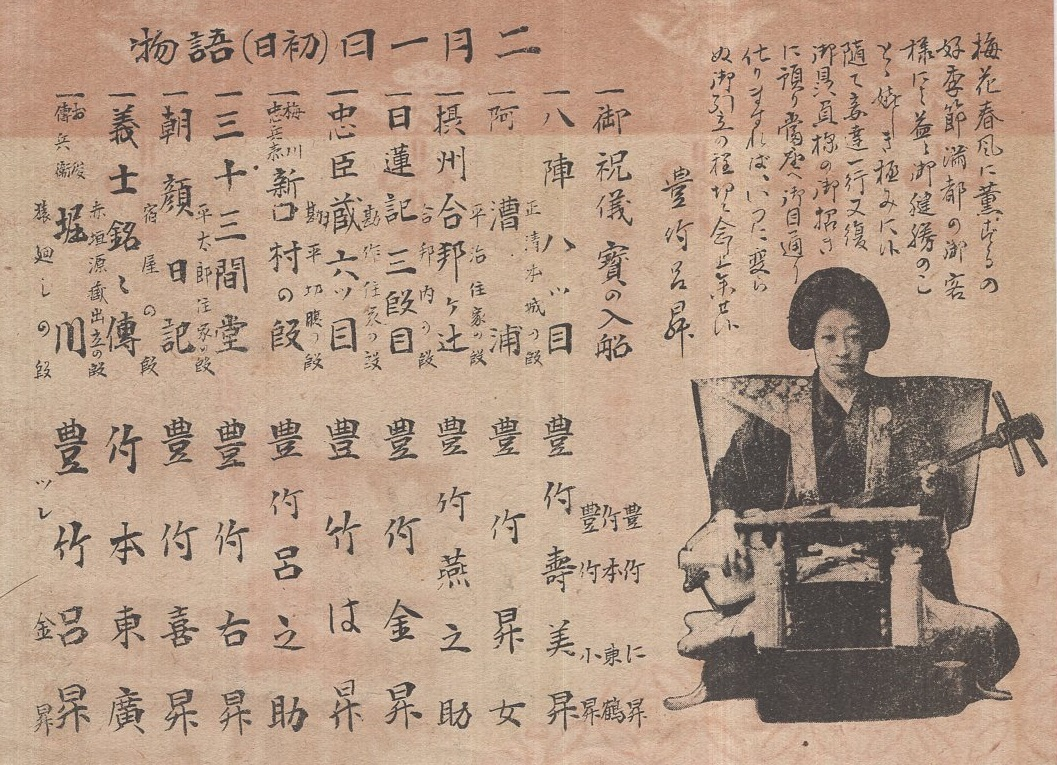 An ad containing the picture of Toyotake Roshō (豊竹呂昇), a female jōruri gidayū.